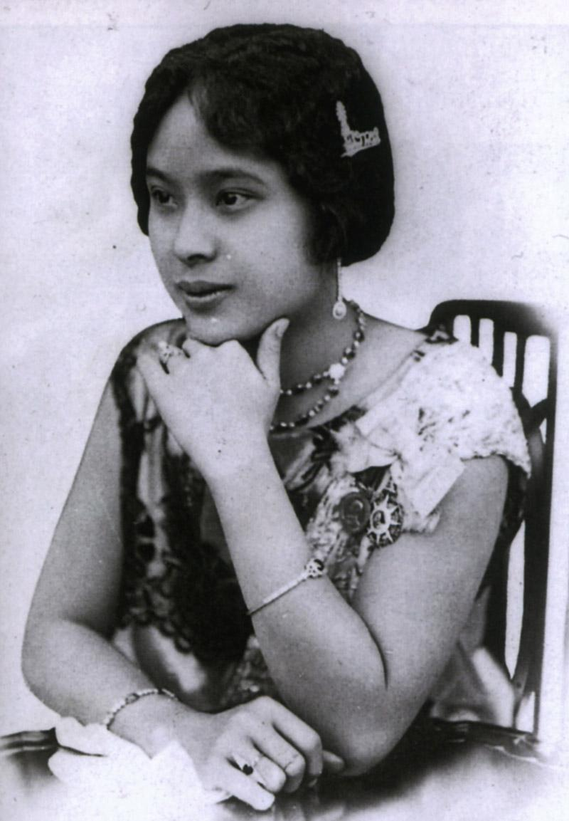 Paew Snidvongseni in 1920.